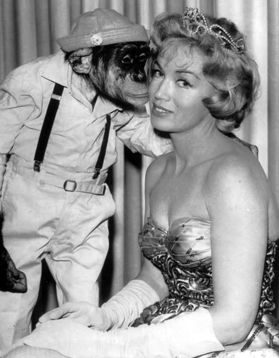 Publicity photo from the television program The Hathaways. Pictured are Charlie and Paula Lane.